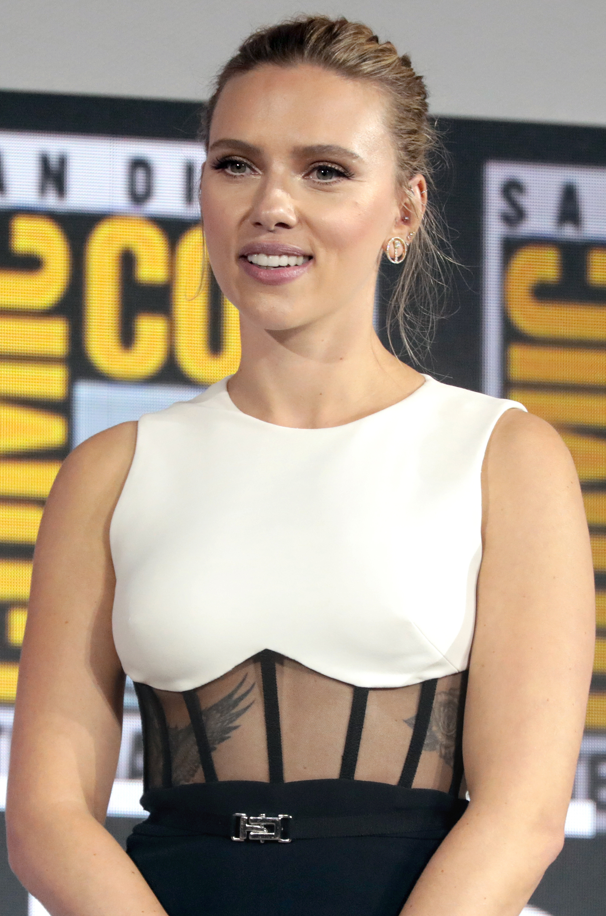 Scarlett Johansson speaking at the 2019 San Diego Comic-Con International in San Diego, California.